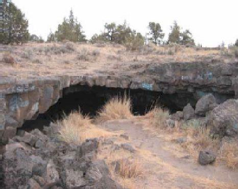 Entrance Redmond Caves within the city limits of Redmond, Oregon, 2005